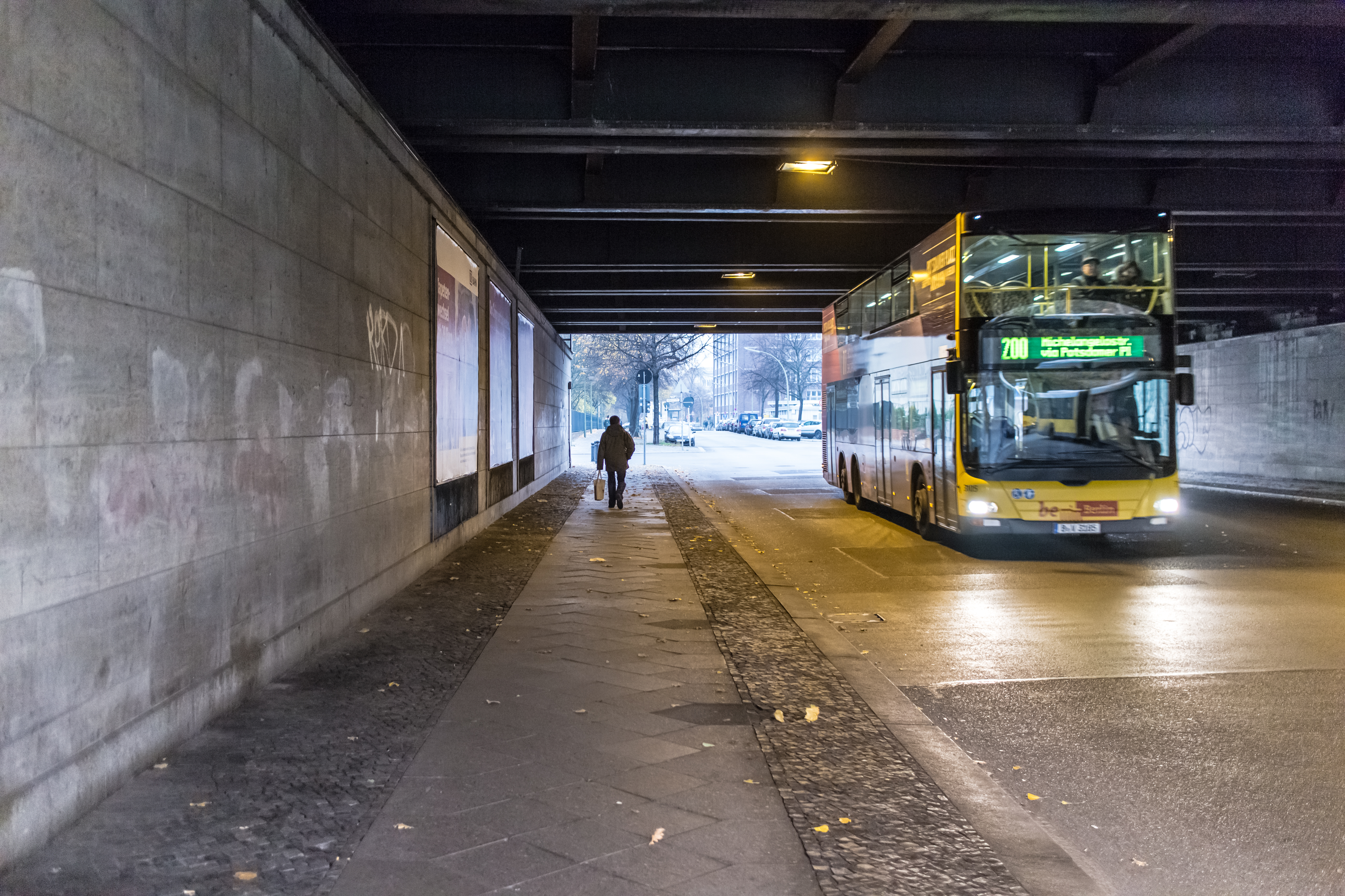 underpass beneath city railway at the start of Hertzallee